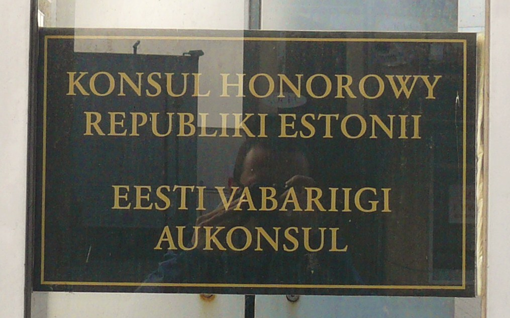 Estonia Consulate - Poznan.